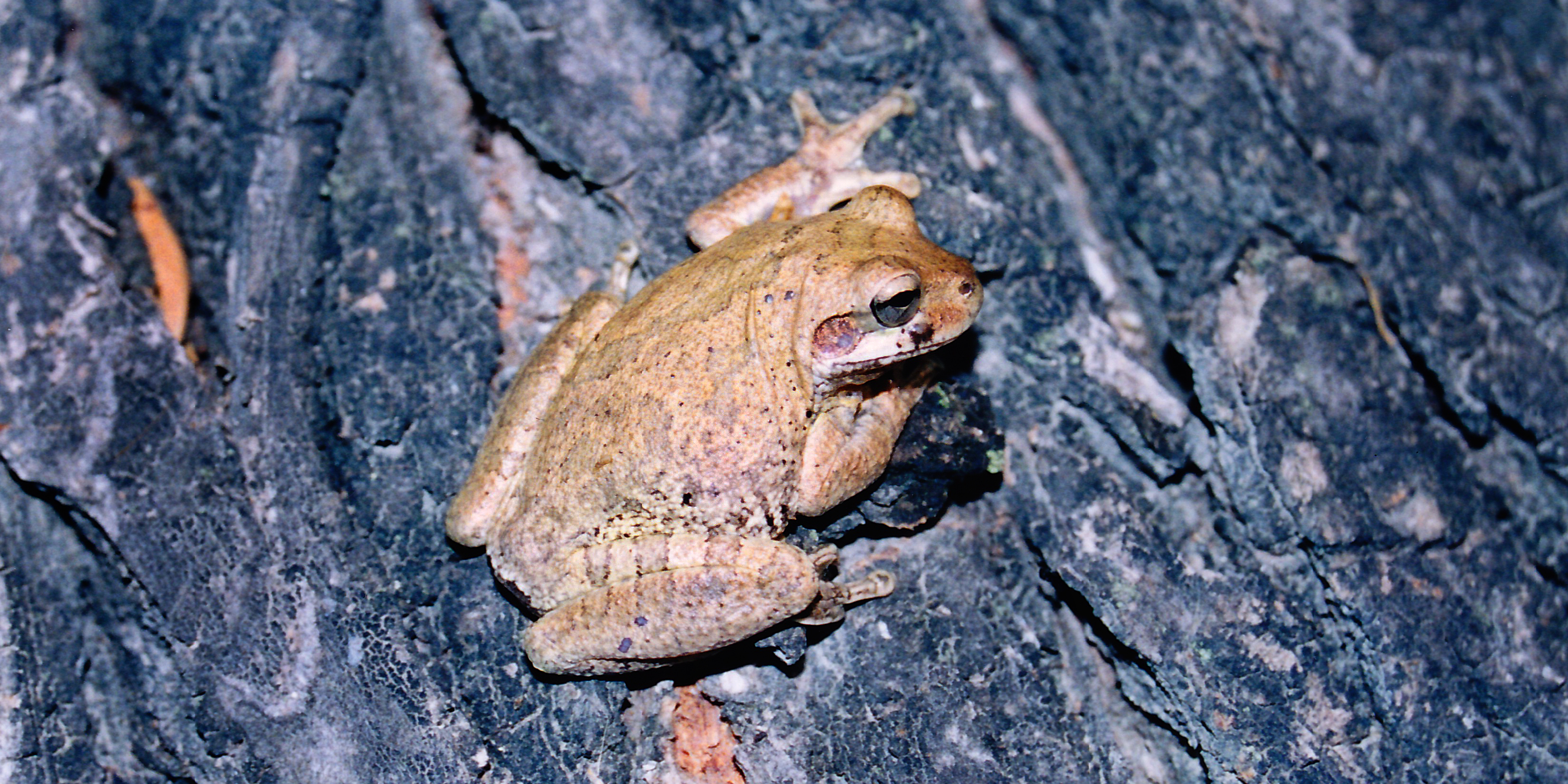 Mexican Treefrog (Smilisca baudinii), Municipality of Abasolo, Tamaulipas, Mexico. Photographed on 18 May 2002 by William L. Farr. This image was originally photographed with film and later scanned from a print.